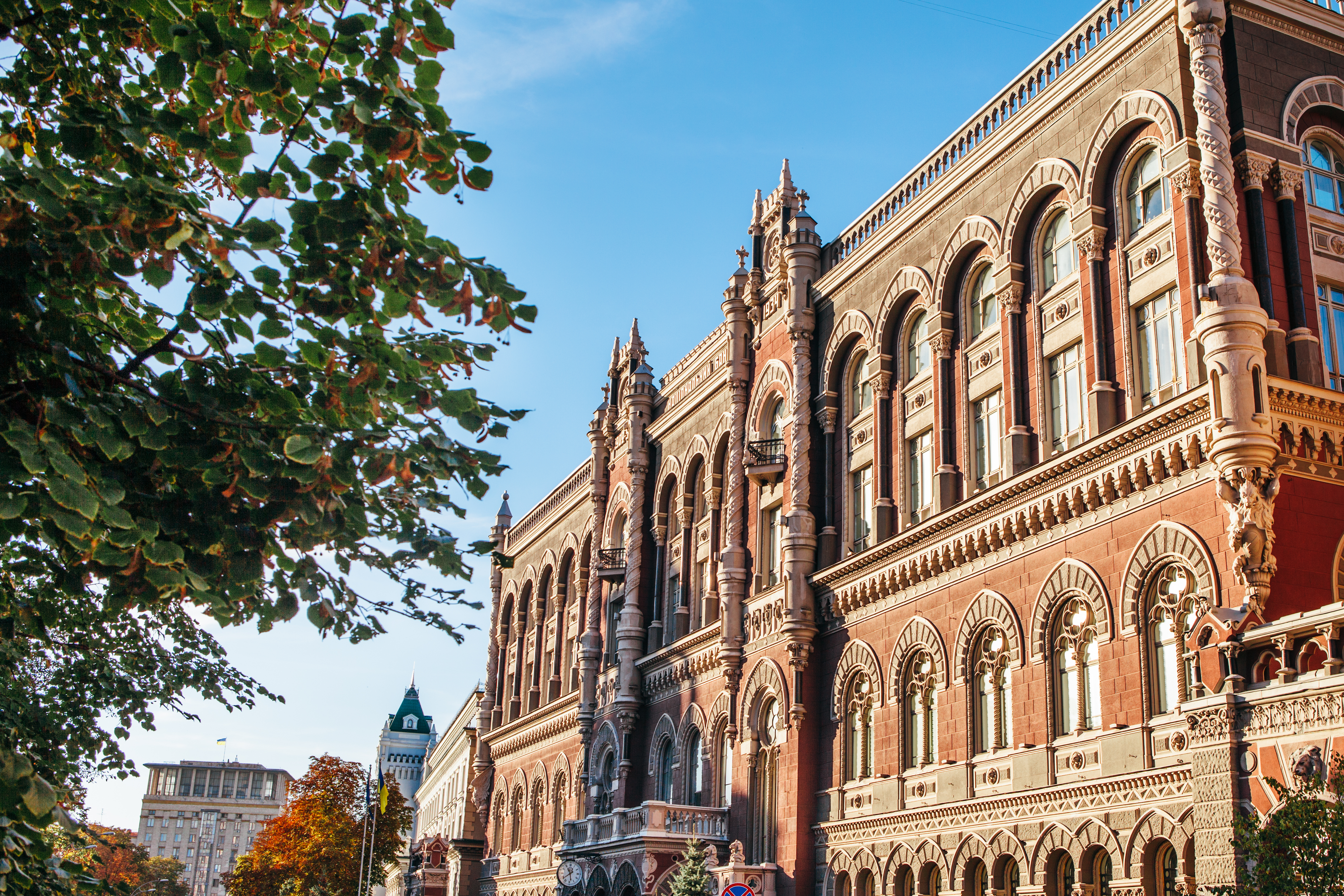 National Bank of Ukraine new 2018